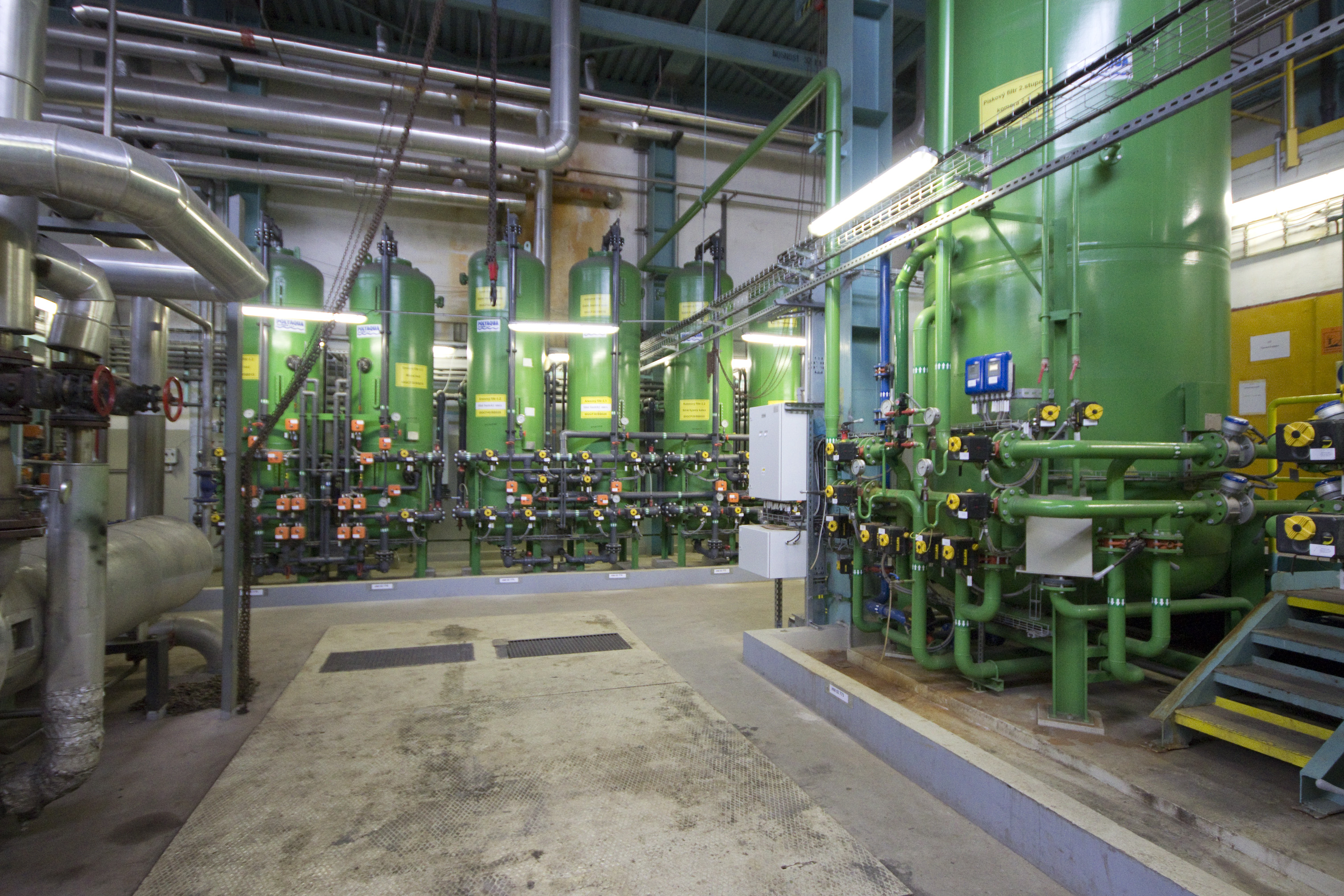 Preparation of demineralized water for boilers, Installations for the energy recovery of waste - Malešice incinerator, Prague Tato série fotografií vznikla za laskavého svolení společnosti Pražské služby